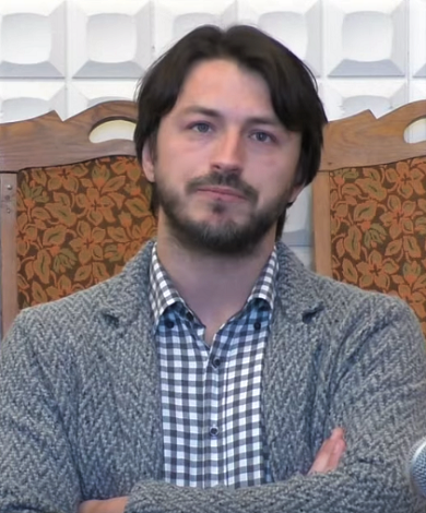 Serhiy Prytula giving an interview in Zhovti Vody April 2018